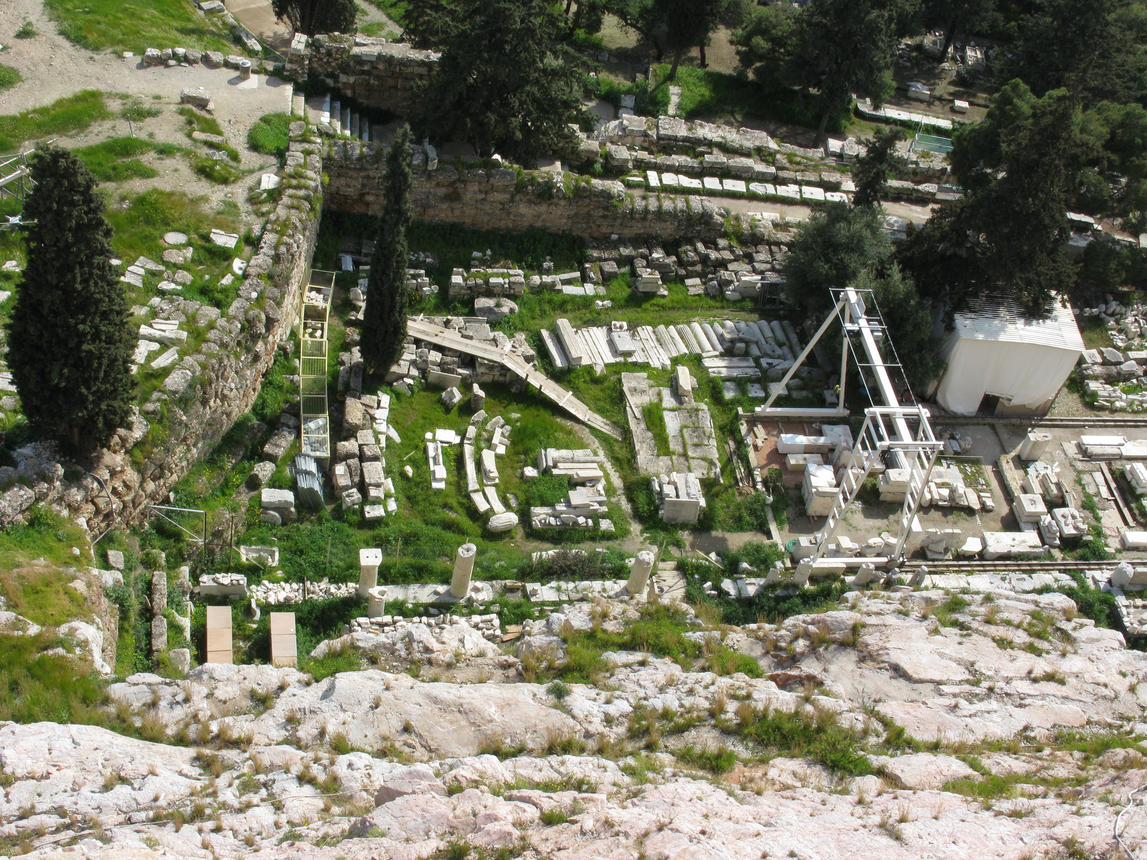 Acropolis of Athens, Greece.